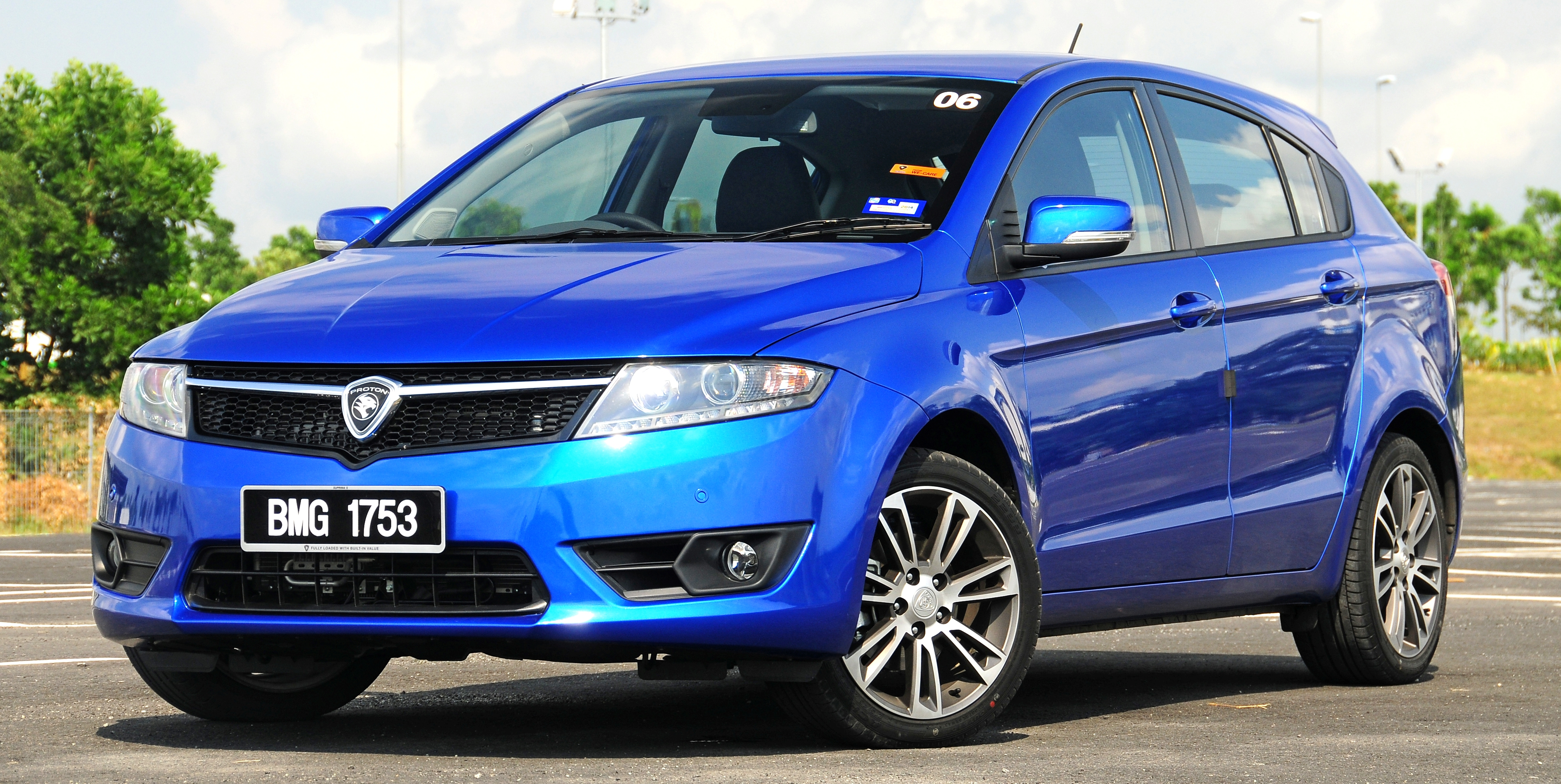 2013 Proton Suprima S in Malaysia.Colour : Atlantic BlueDesigned & Manufactured in Malaysia